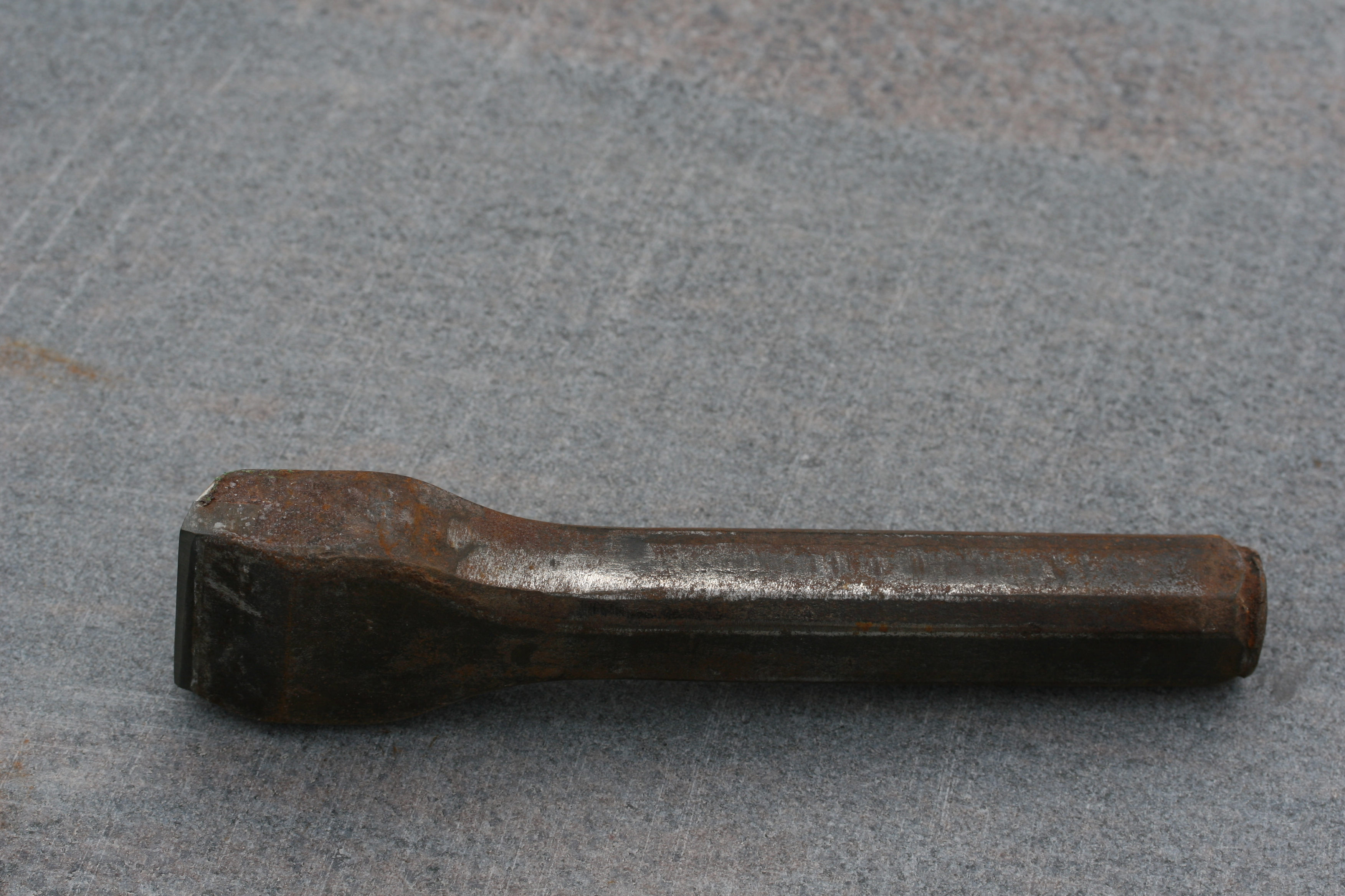 Corner chisel